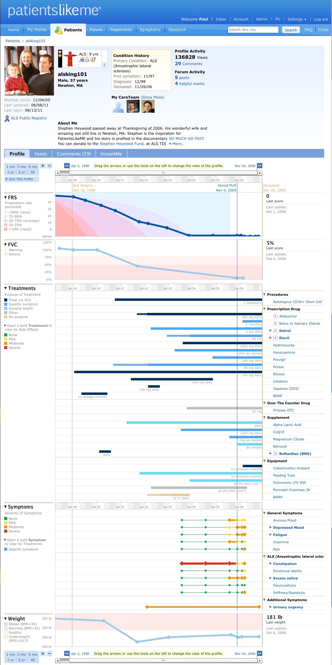 The PatientsLikeMe Profile of Stephen Heywood, brother of the co-founders of the company, who was diagnosed with ALS when he was 29 years old. This profile describes his experience with the disease including his functional rating scale, treatments, symptoms, breathing capacity, and weight.